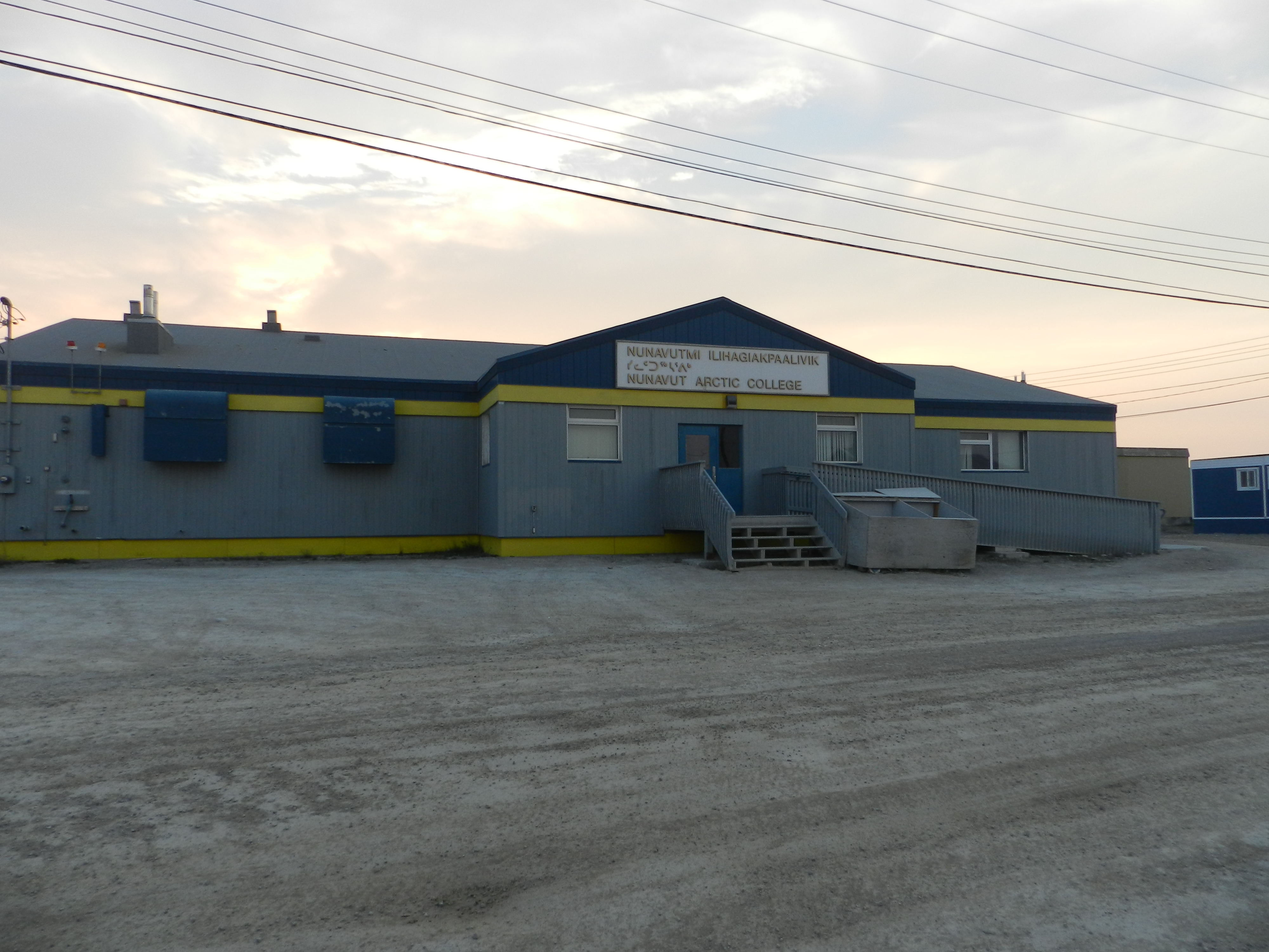 Arctic College building